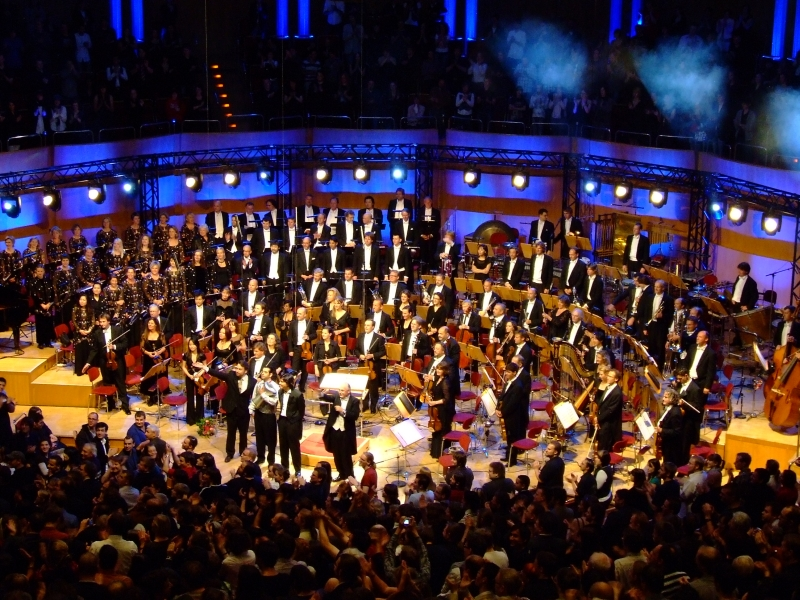 A picture of the WDR Radio Orchestra Cologne, the WDR Radio Choir Cologne, Jonne Valtonen, Rony Barrak, Benyamin Nuss and Arnie Roth, taken after the performance of Symphonic Fantasies in the Cologne Philharmonic Hall (on September 12, 2009).